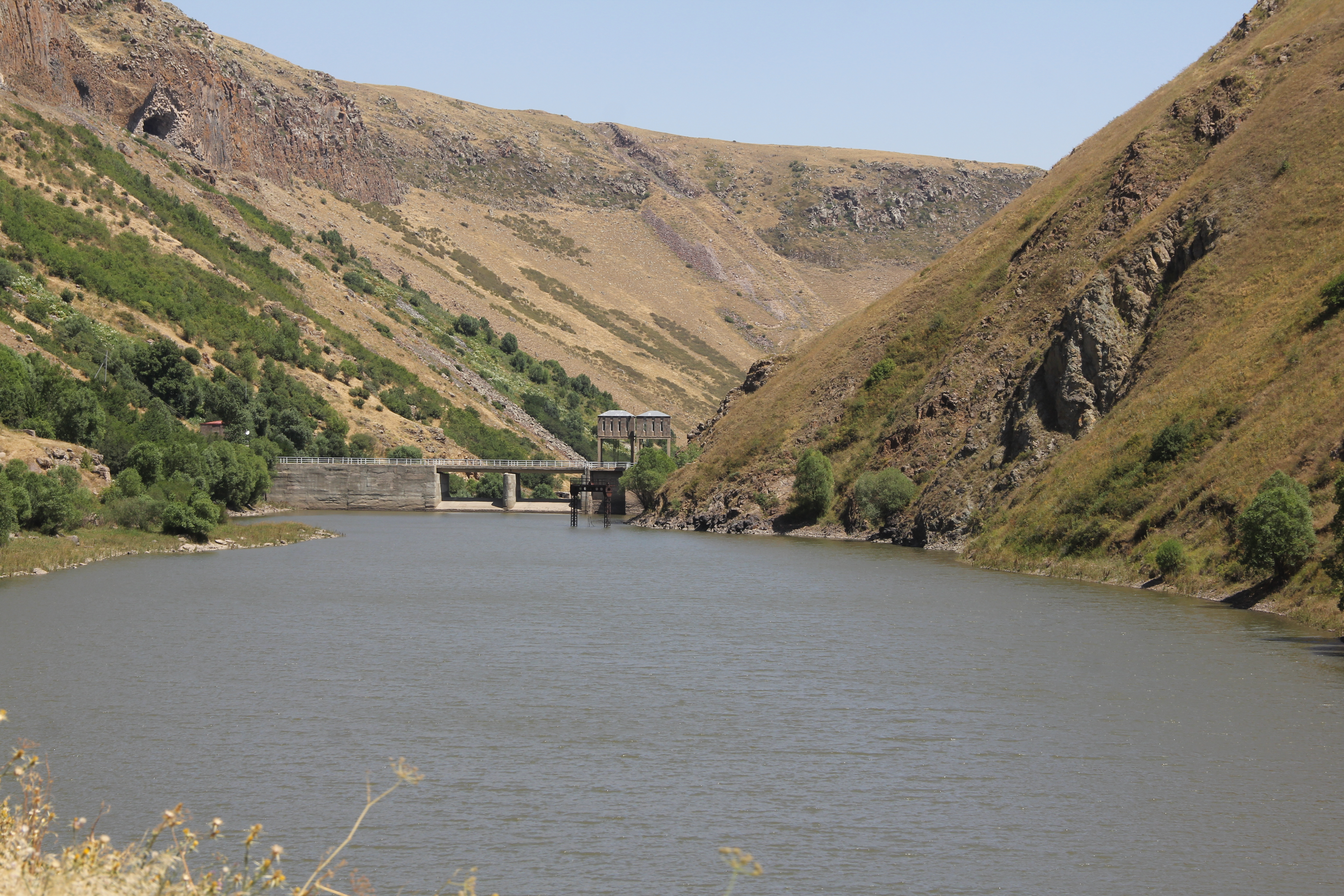 Angeghakot